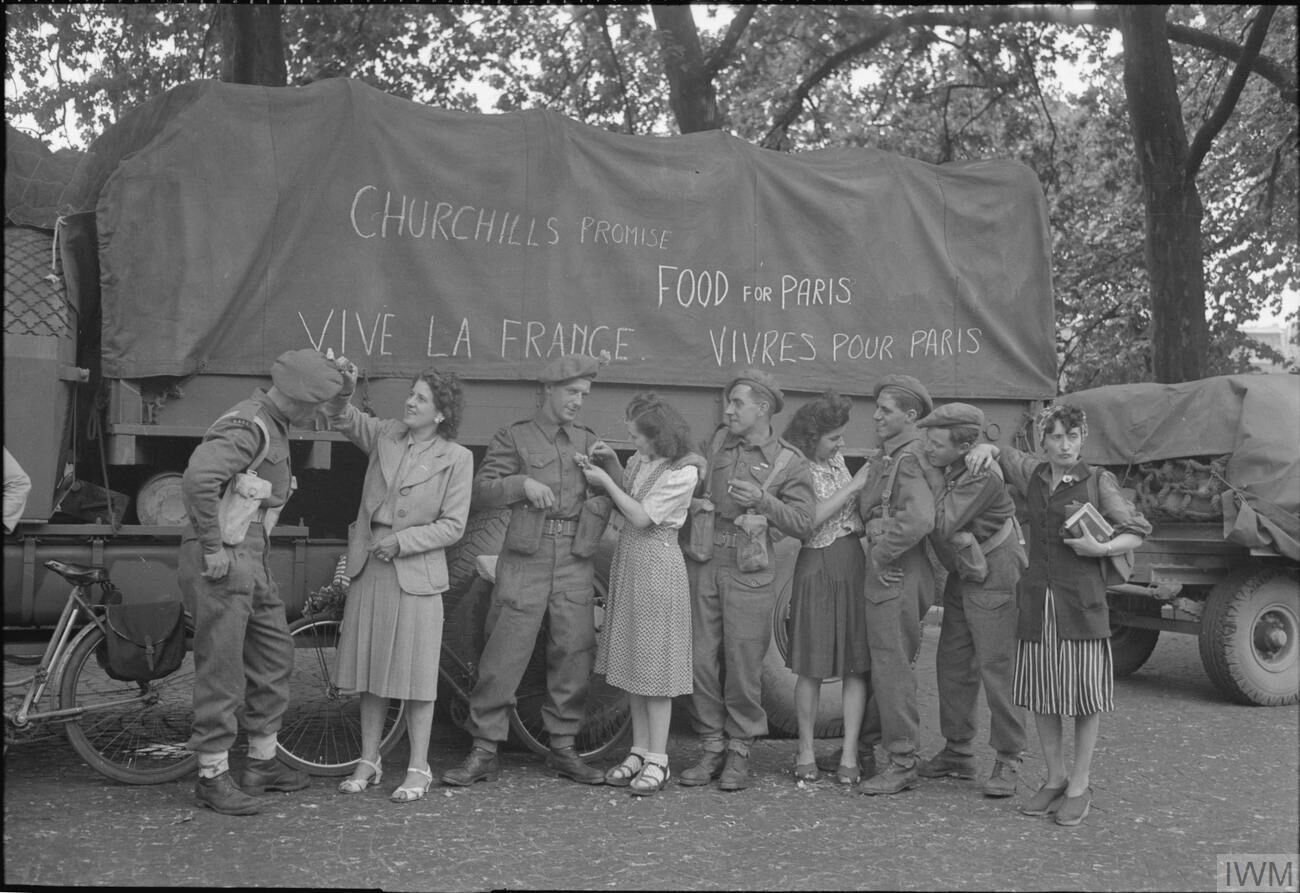 The British Army in North-west Europe 1944-45 British troops enjoy the attention of French girls after bringing a food convoy to Paris, 29 August 1944.